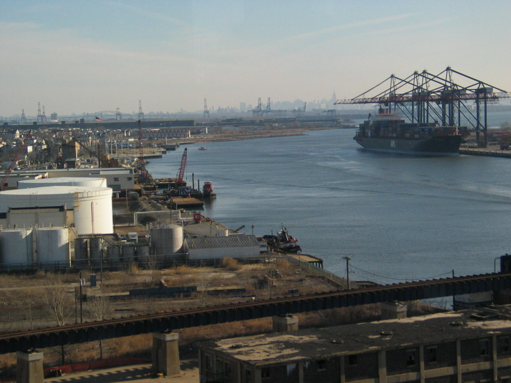 Entering Elizabeth, NJ from Goethals Bridge.